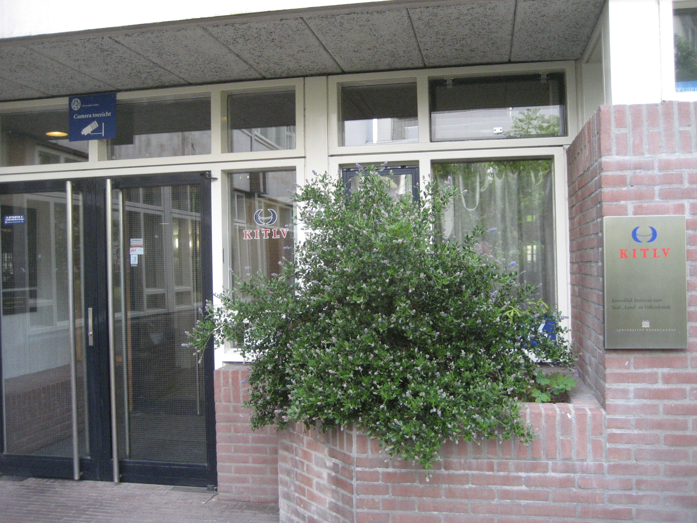 Entrance KITLV, Leiden (The Netherlands)